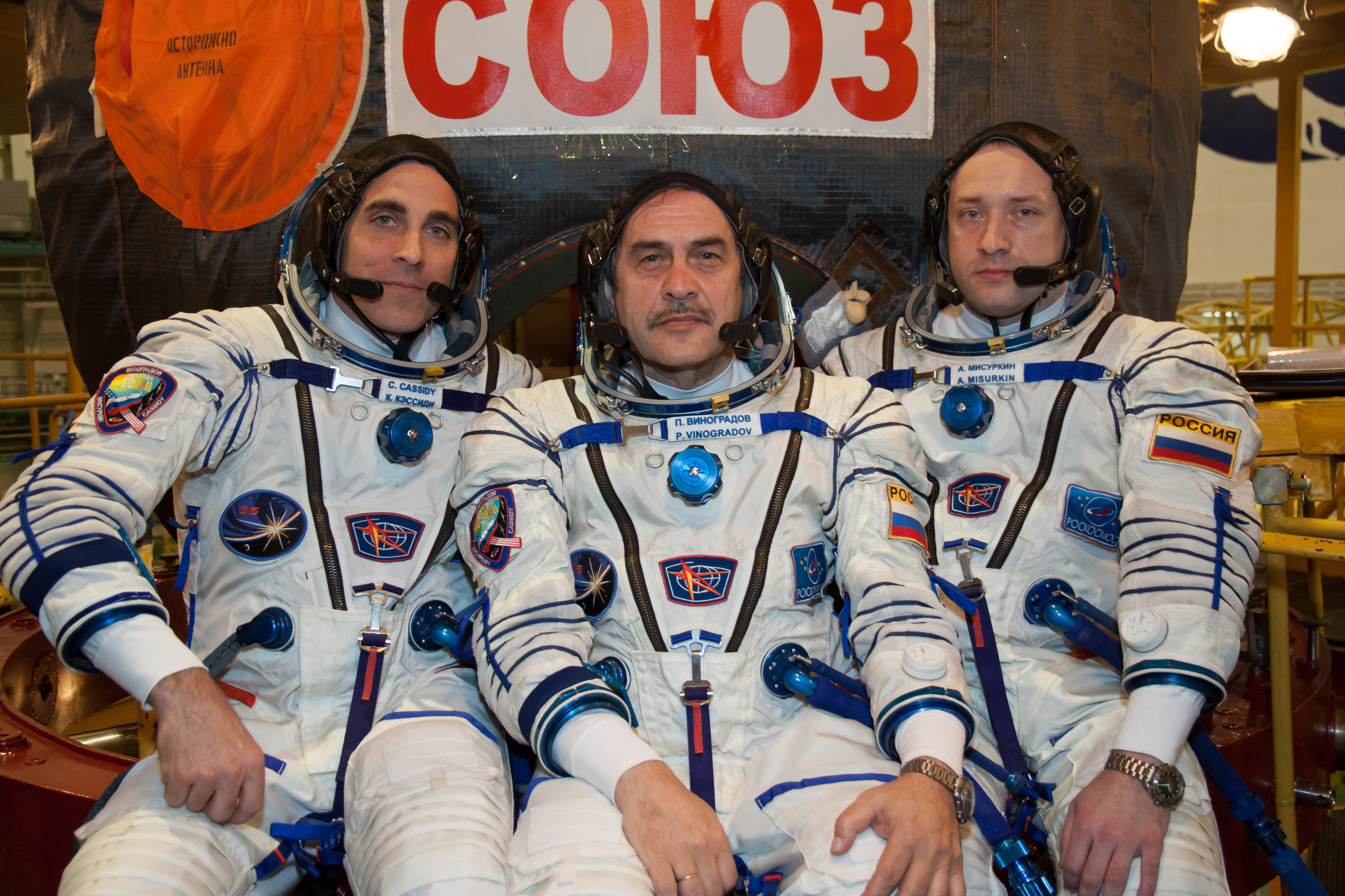 In the Integration Facility at the Baikonur Cosmodrome in Kazakhstan, the Expedition 35/36 prime crew members pose for pictures March 17 during a systems dress rehearsal called a "fit check." Left to right are NASA Flight Engineer Chris Cassidy, Soyuz Commander Pavel Vinogradov and Flight Engineer Alexander Misurkin. Cassidy, Vinogradov and Misurkin are preparing for launch to the International Space Station from Baikonur scheduled for March 29, Kazakh time.